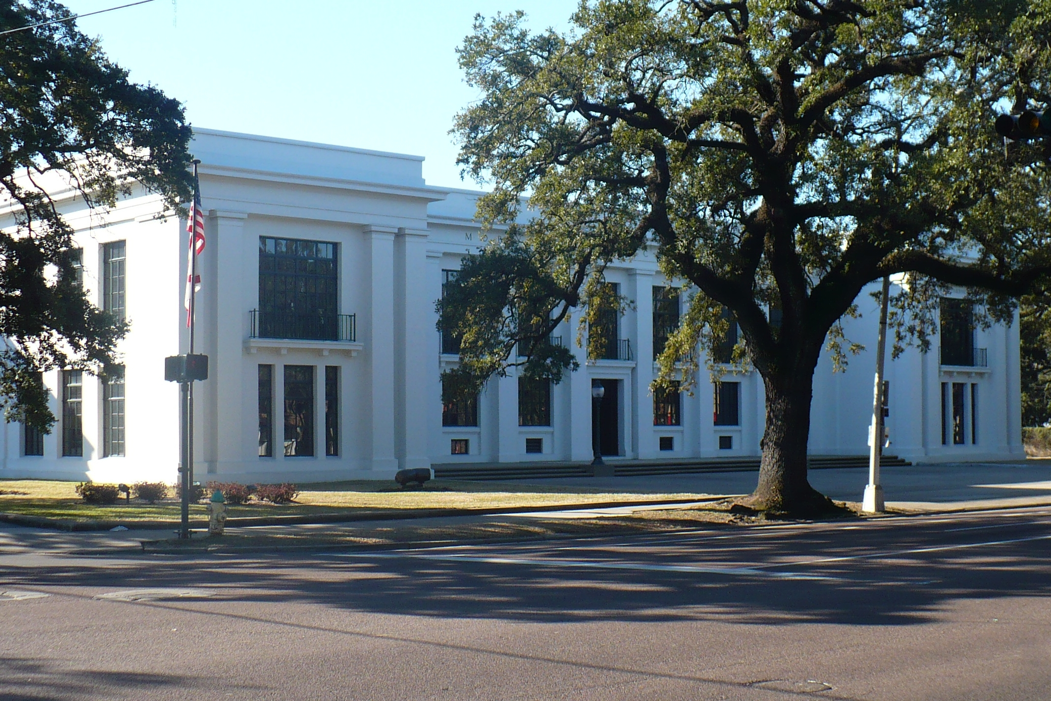 The Ben May Main Library, part of the Mobile Public Library in Mobile, Alabama.